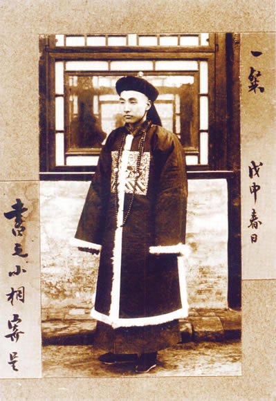 The Empire of Great Qing of China government official with Mandarin square.